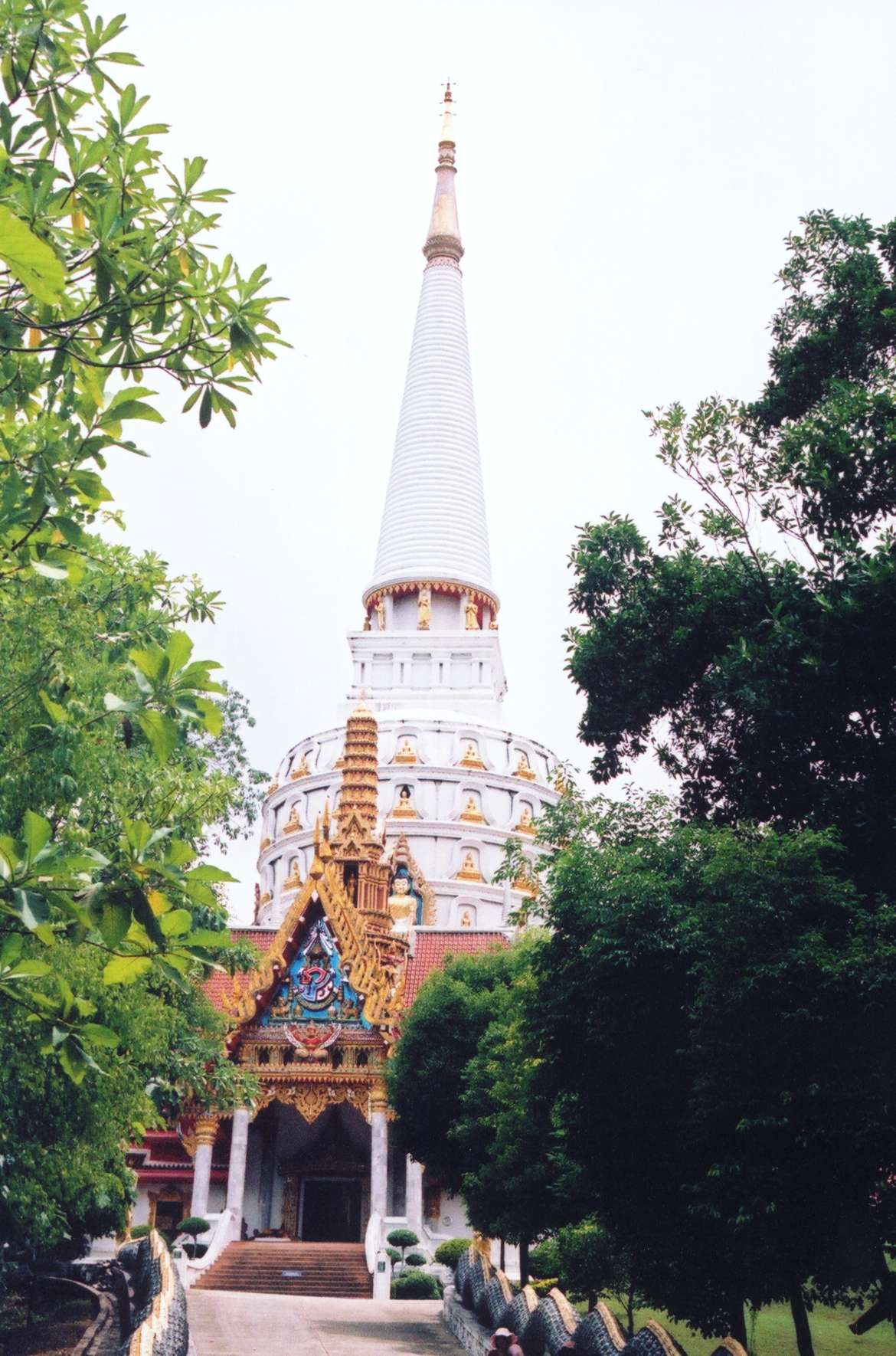 Wat Bang Riang, Phang Nga Province, Thailand Photo taken by User:Ahoerstemeier in 2003